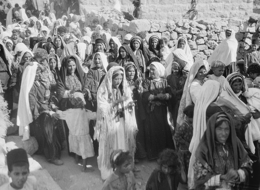 This is a cropped version of this file